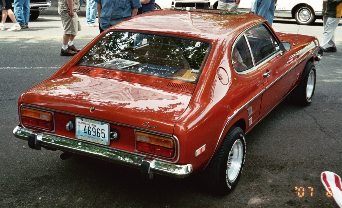 1973 Mercury Capri